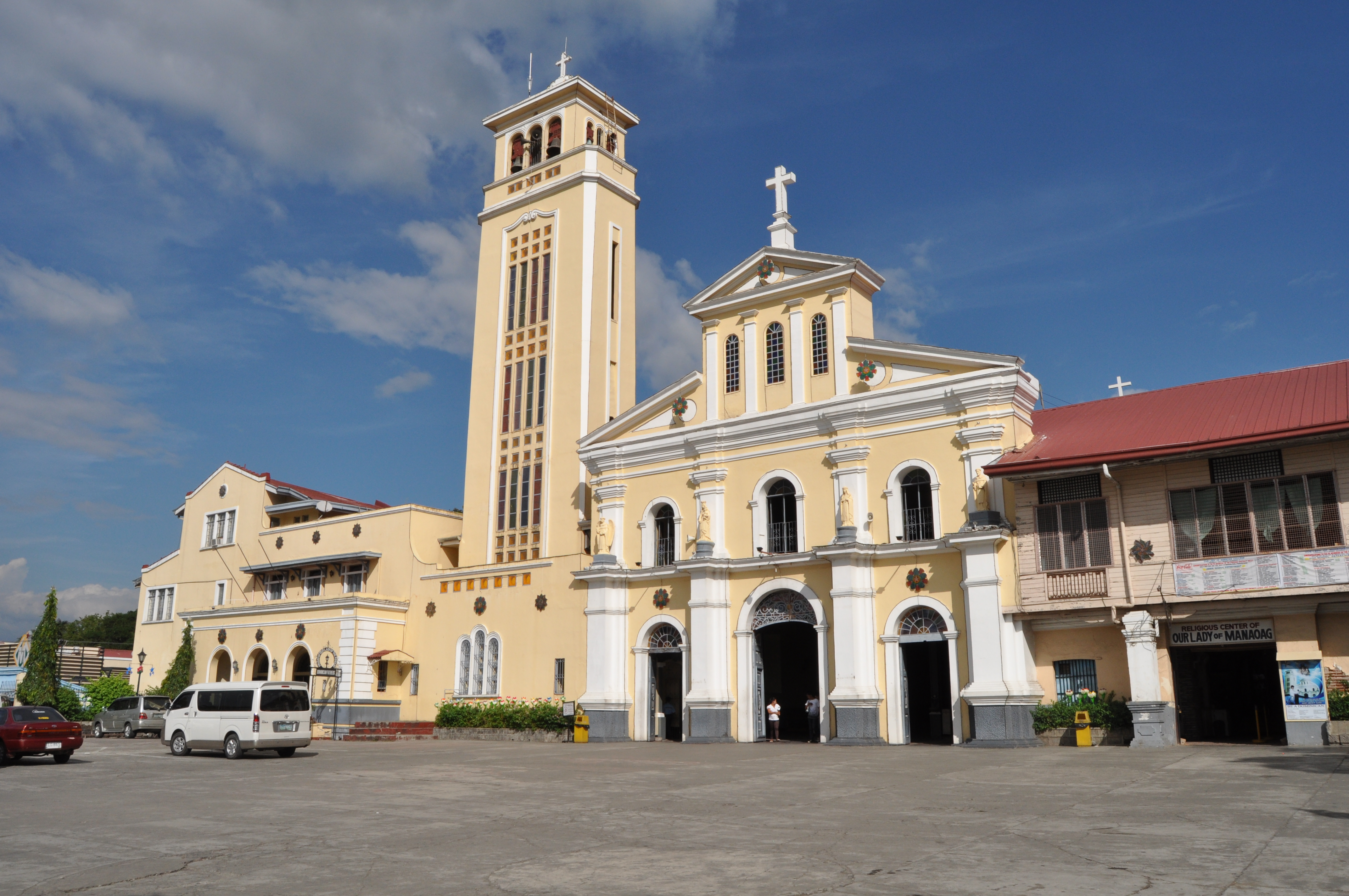 Our Lady of Manaoag